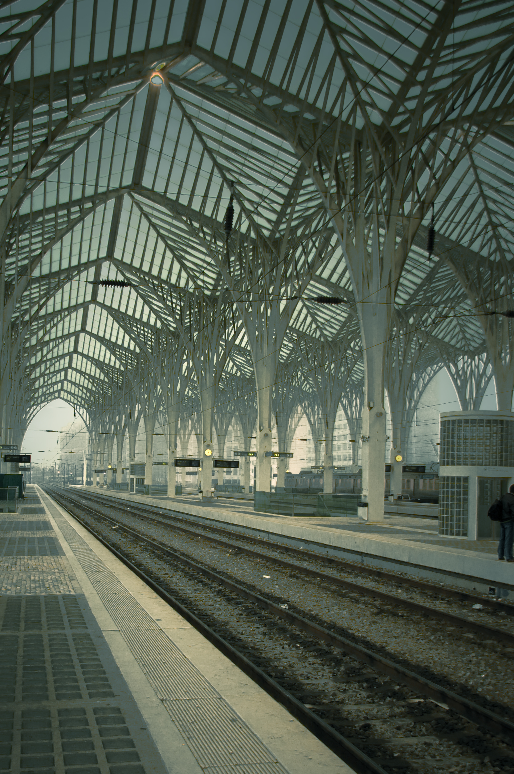 Railway station in Lisbon.